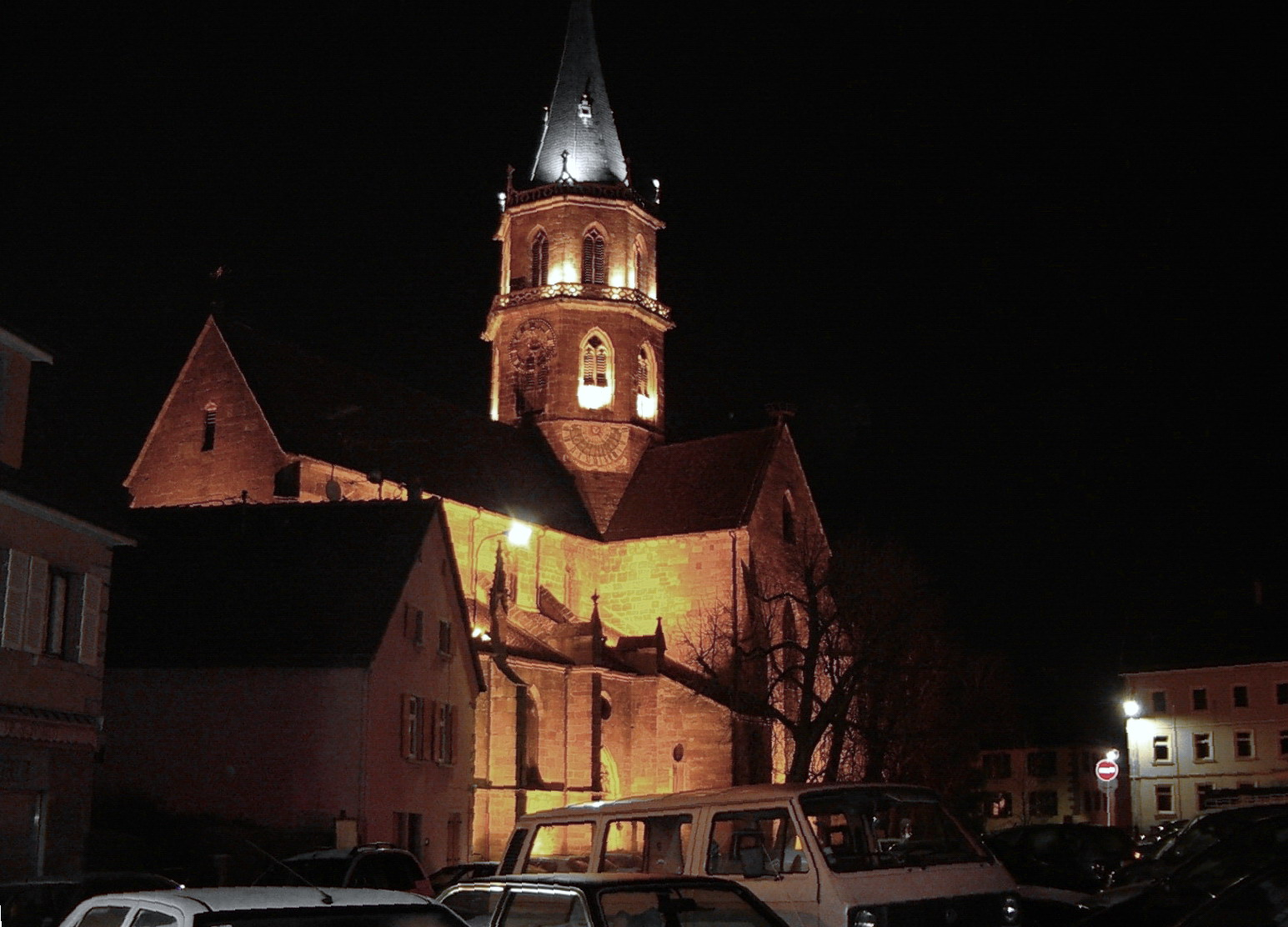 St. Maurice Church in Soultz-Haut-Rhin, Alsace, France.